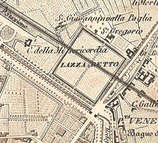 Lazzaretto e Foppone di San Gregorio - dettaglio della mappa di Giovanni Brena (1865)